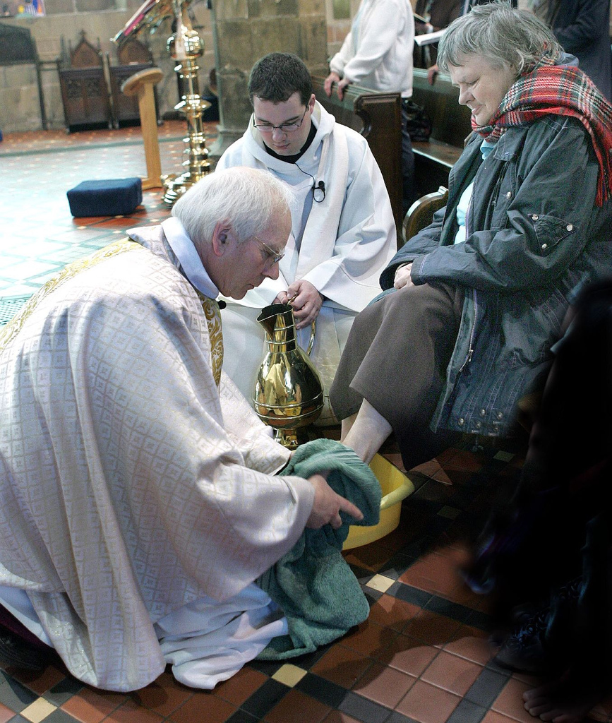 Bishop John washes the feet of Eleanor, who walks to St. Giles, Wrexham, in bare feet, on Maundy Thursday 2007. Photograph by Brian Roberts, Wrexham